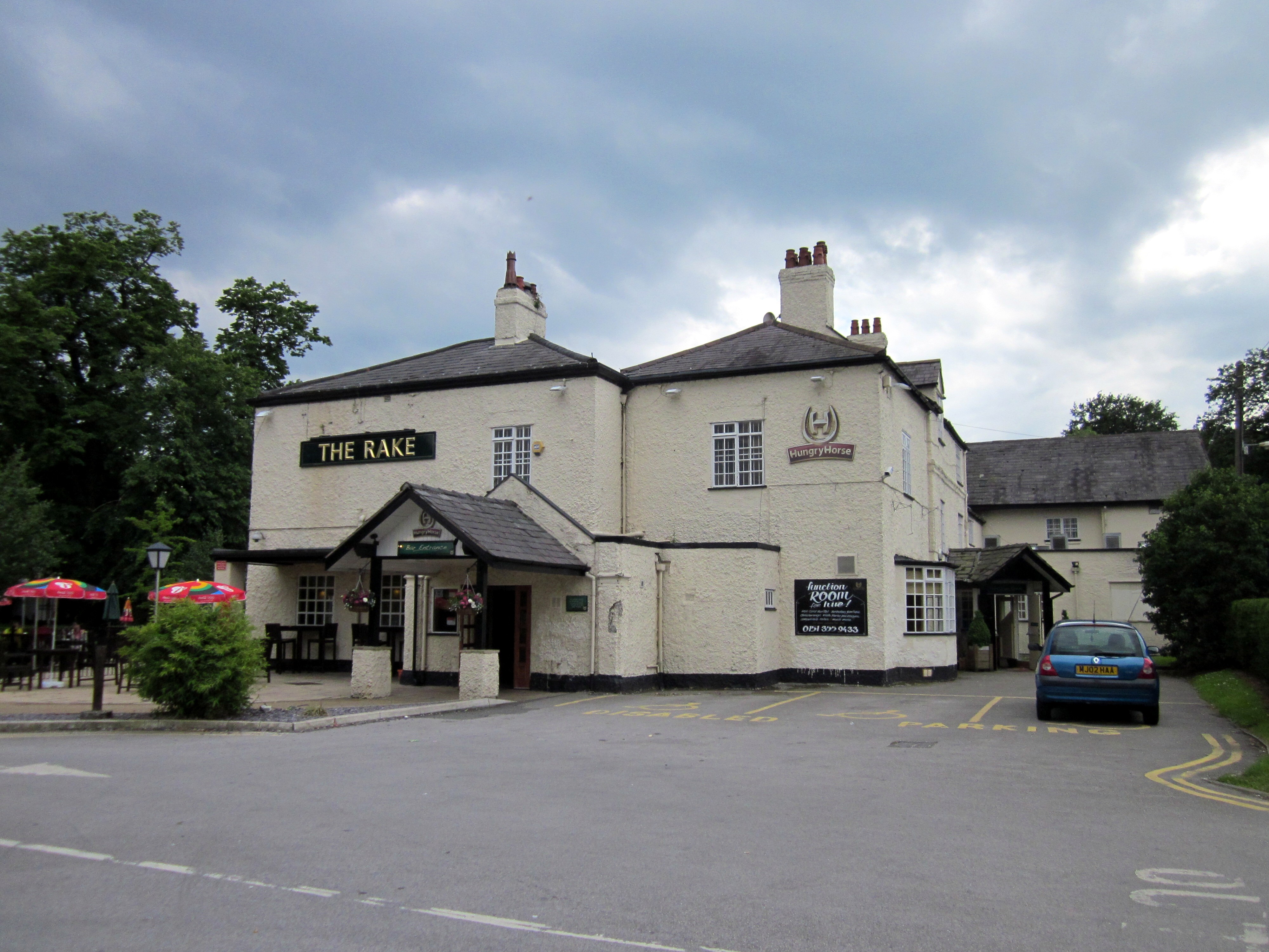 Photograph of The Rake, Little Stanney (originally Rake Hall)